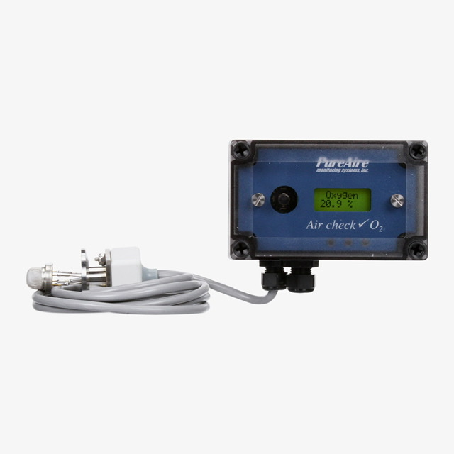 This Oxygen monitor is designed for people protection, sounding audible alerts in case of a gas leak or spill of oxygen depleting gases, such as nitrogen or other various cryogenics.